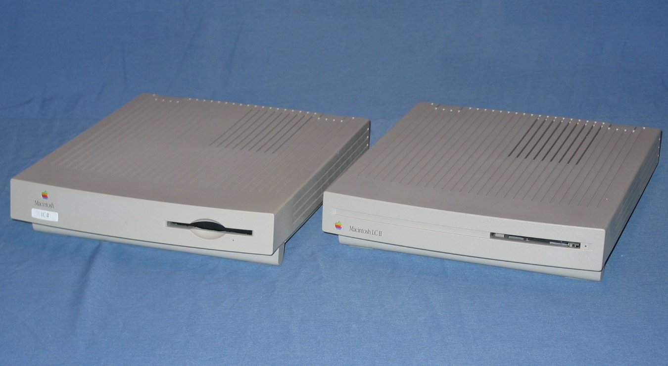 Front view of two Macintosh LC II units -- the left-hand unit has a manual-inject floppy drive, and the right-hand unit has an auto-inject floppy drive